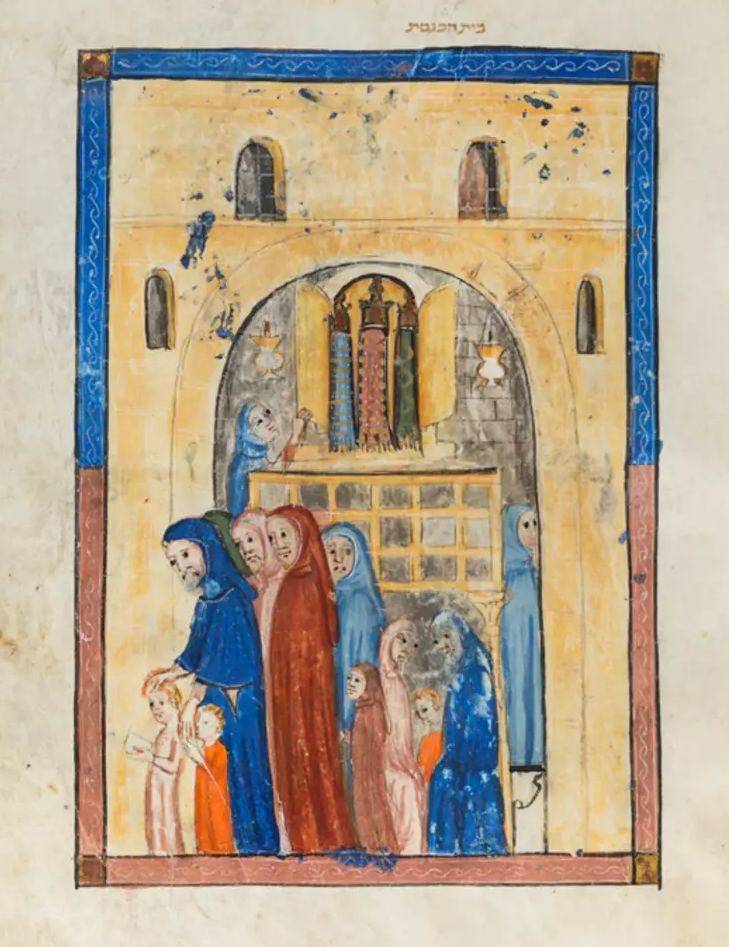 Haggada de Sarajevo